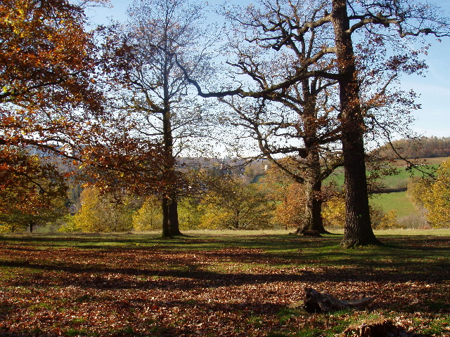 A grove in Stuttgart-Sillenbuch in Germany.